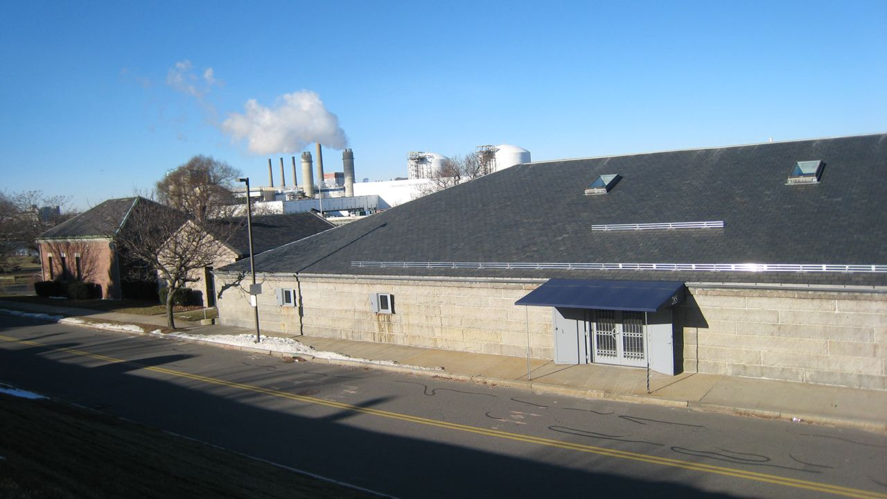 A view of all three buildings of the Chelsea Naval Magazine, from left to right: Building 3, Middle Building, Building 2.